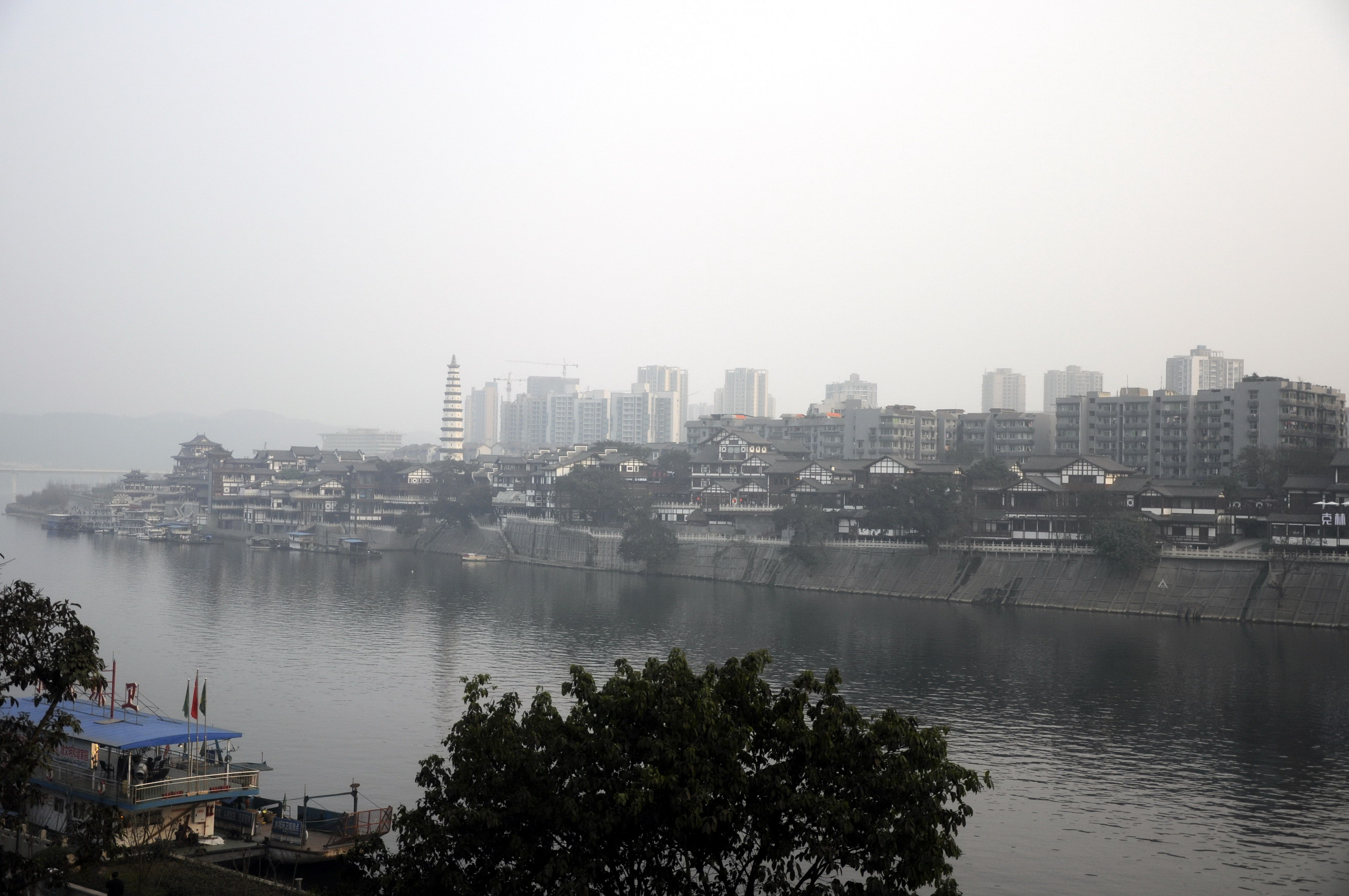 The old style houses along river in Hechuan